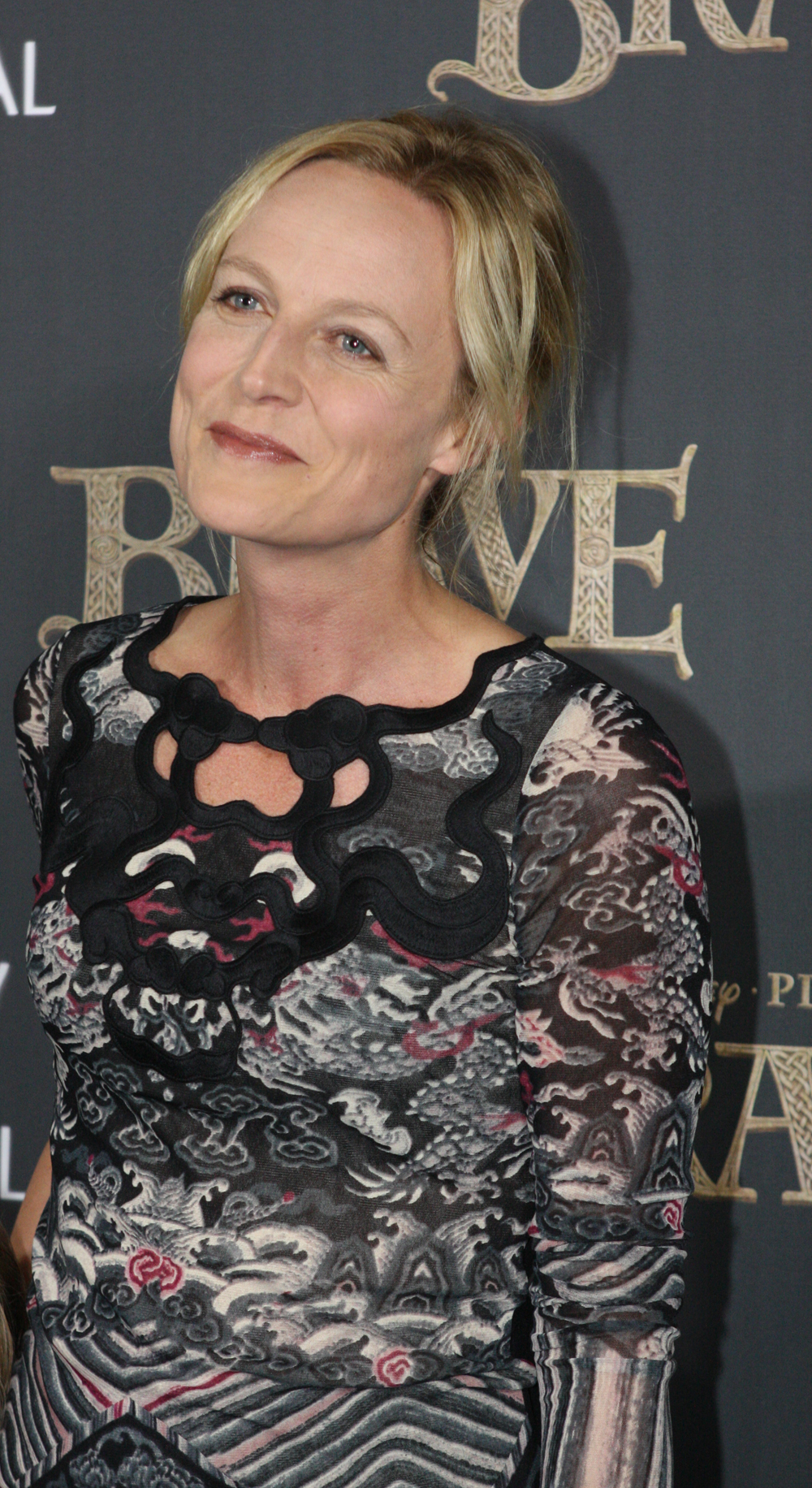 Billy Connolly in Sydney, Australia for Brave Red Carpet Event Comic genius and actor Billy Connolly is in town and he plays a large hairy Scotsman in Disney Pixar latest release Brave. Rain didn't stop fans and media lining up the red carpet at George Street's Event Cinemas to meet the 69-year-old comedian, a regular visitor to our shores. Connolly shares his voice to a 10th Century King named Fergus in the new Disney/Pixar collaboration, about a rebellious, flame-haired princess (Kally Macdonald) who rails against her intended fate - to unexpected result. Sydney Film Festival director Nashen Moodley described Brave, set against the dramatic backdrop of the Scottish Highlands, as "a wonderfully feminist story about a young princess who defies the rules to find her own bravery and do something incredible." Promo... Determined to make her own path in life, Princess Merida defies a custom that brings chaos to her kingdom. Granted one wish, Merida must rely on her bravery and her archery skills to undo a beastly curse. Directors: Mark Andrews, Brenda Chapman Writers: Mark Andrews (screenplay), Steve Purcell (screenplay Stars: Kelly Macdonald, Billy Connolly and Emma Thompson Websites Brave official website Disney (Australia) Billy Connolly official website Event Cinemas Eva Rinaldi Photography Flickr Eva Rinaldi Photography